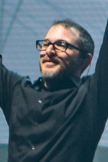 Roger Waters on the Us+Them Tour in New Zealand, 2401-01-24